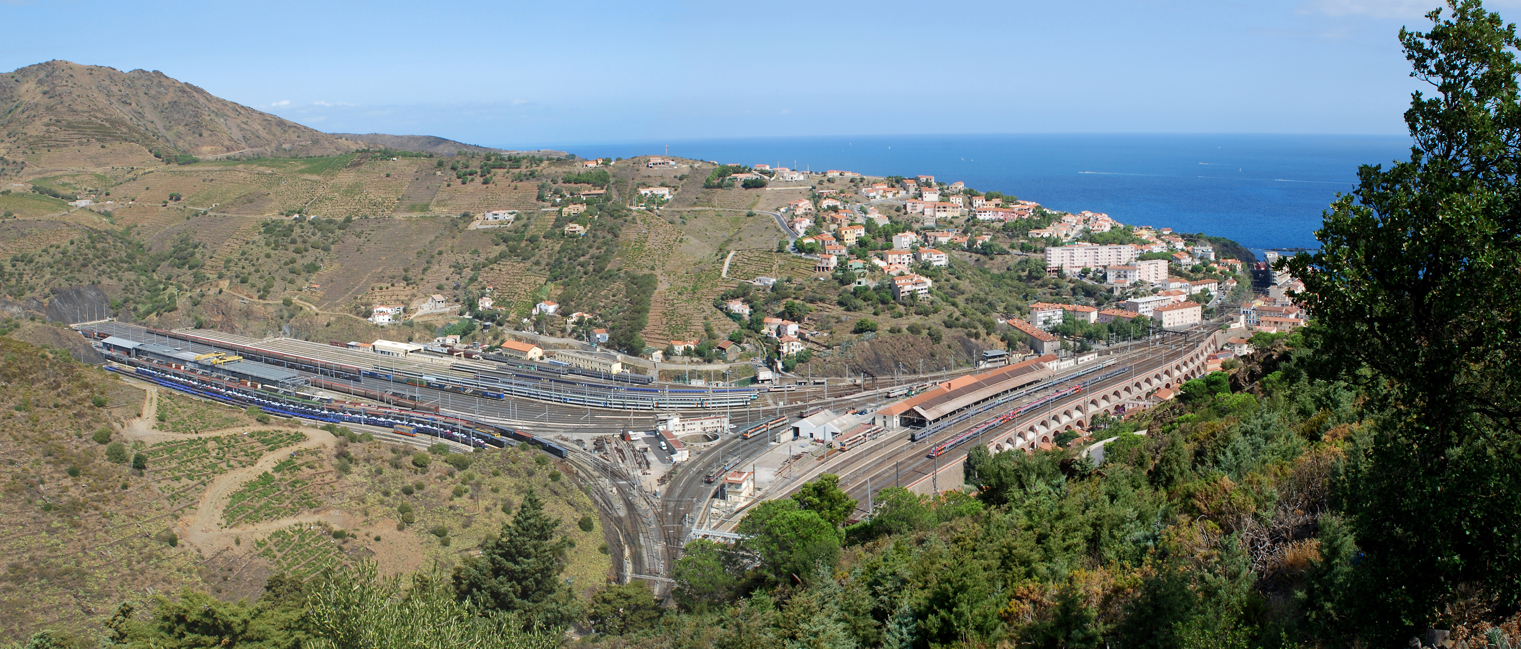 Cerbère Intl. Railway Station